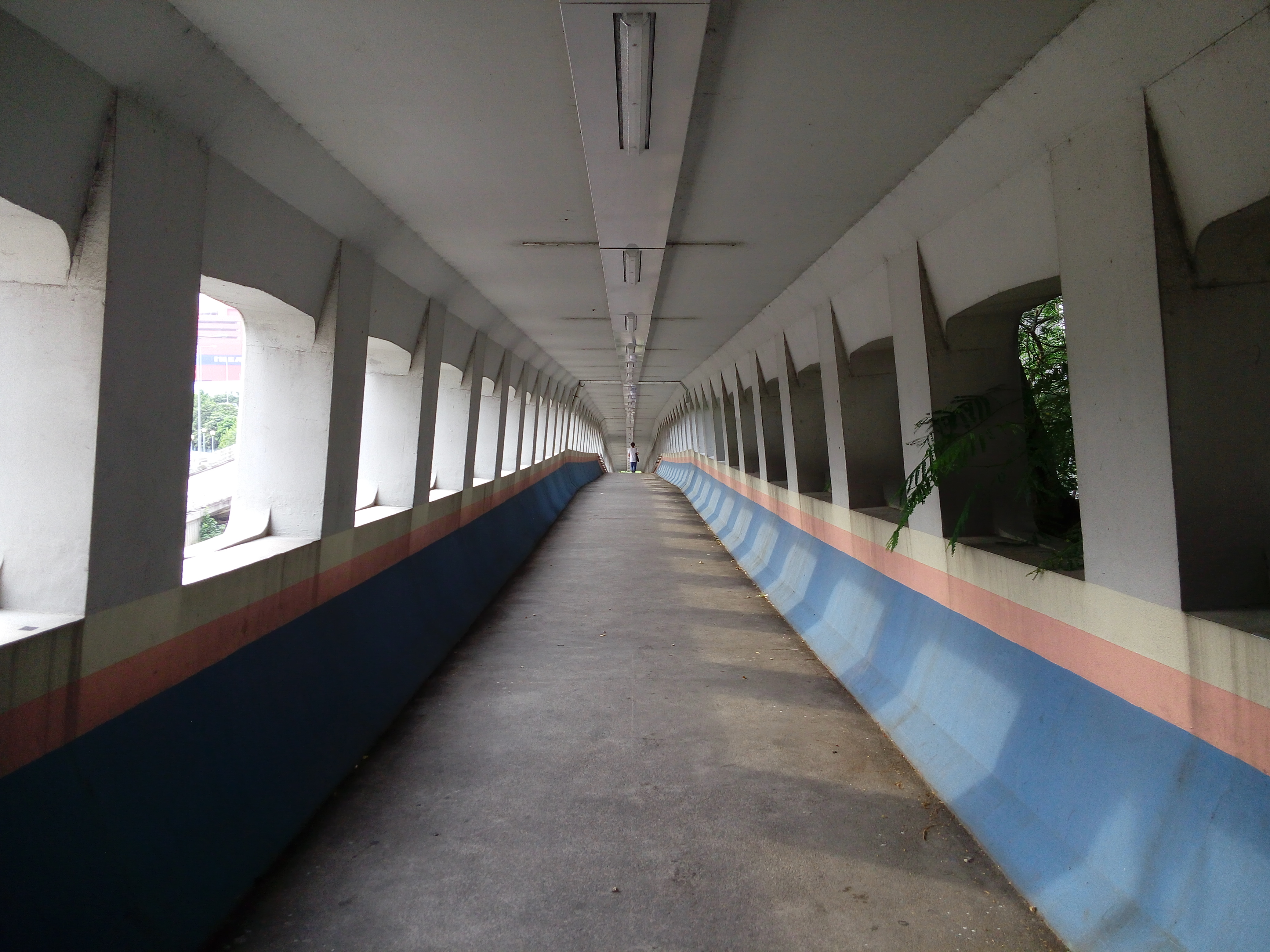 Jimmy Bridge is a footbridge in Kwun Tong, Hong Kong.